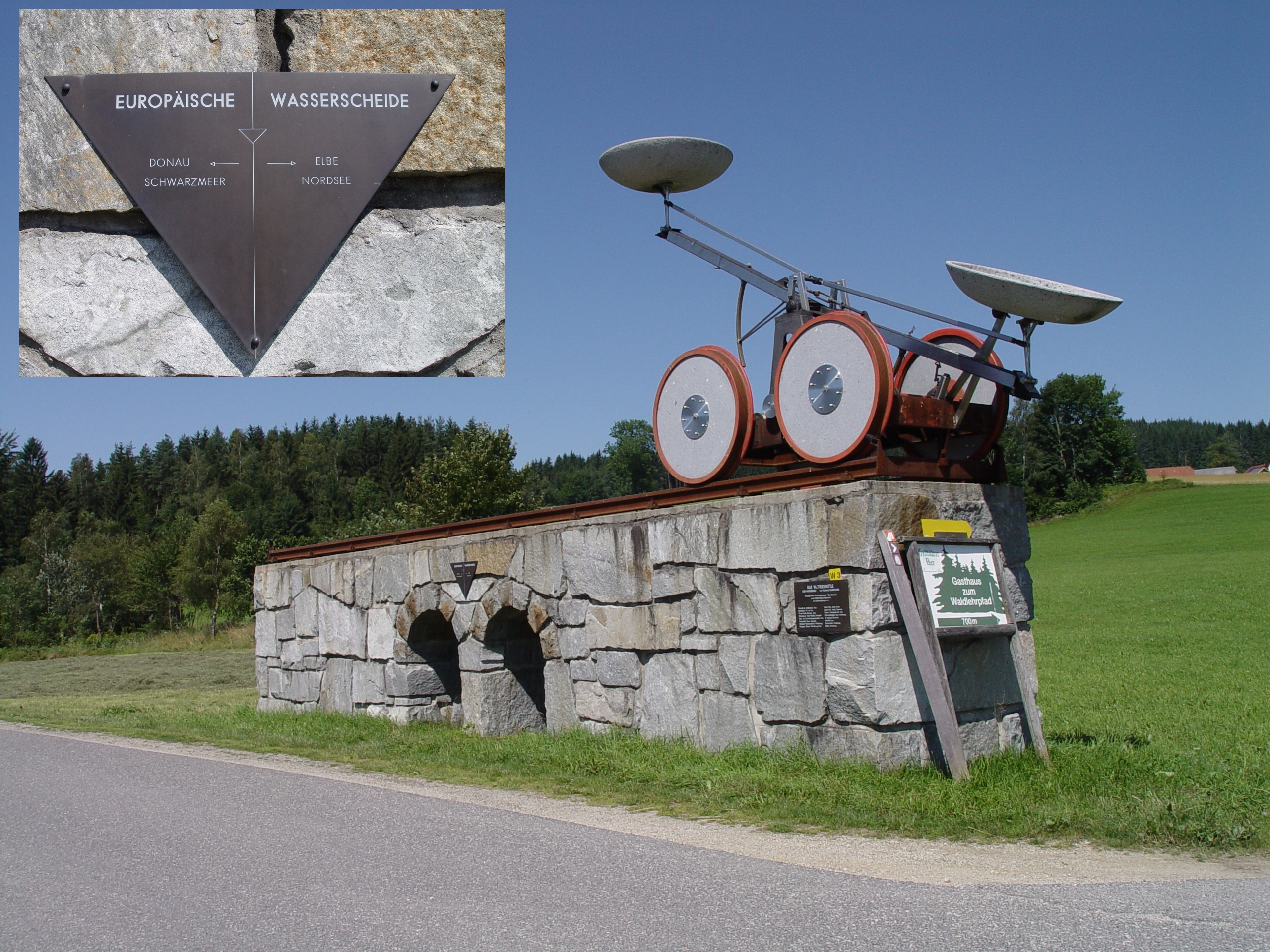 A "water thief" at the watershed of the Vltava and Danube basins.